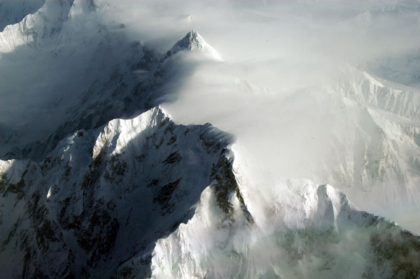 Aerial photo of Ultar Sar, in the Batura Muztagh of Pakistan, viewed from the southeast. Ultar sar is in center, with the notable black face. Bojohagur Duanasir is the left end of the same short ridge (left center of photo), while Shispare is the pointed peak in the center background.